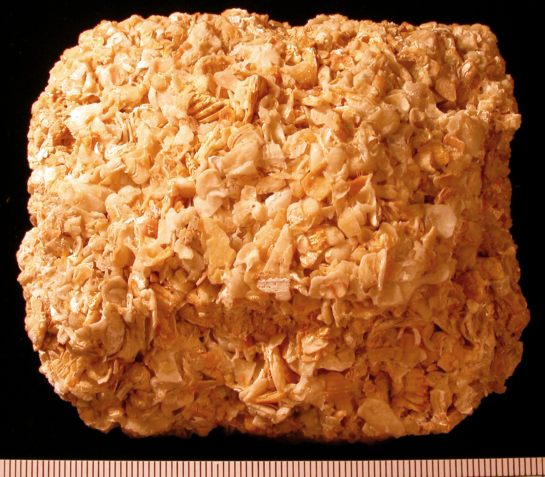 Coquina from Florida. The scale bar is in mm.